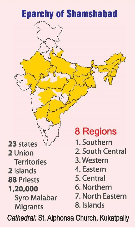 Eparchy of Shamshabad